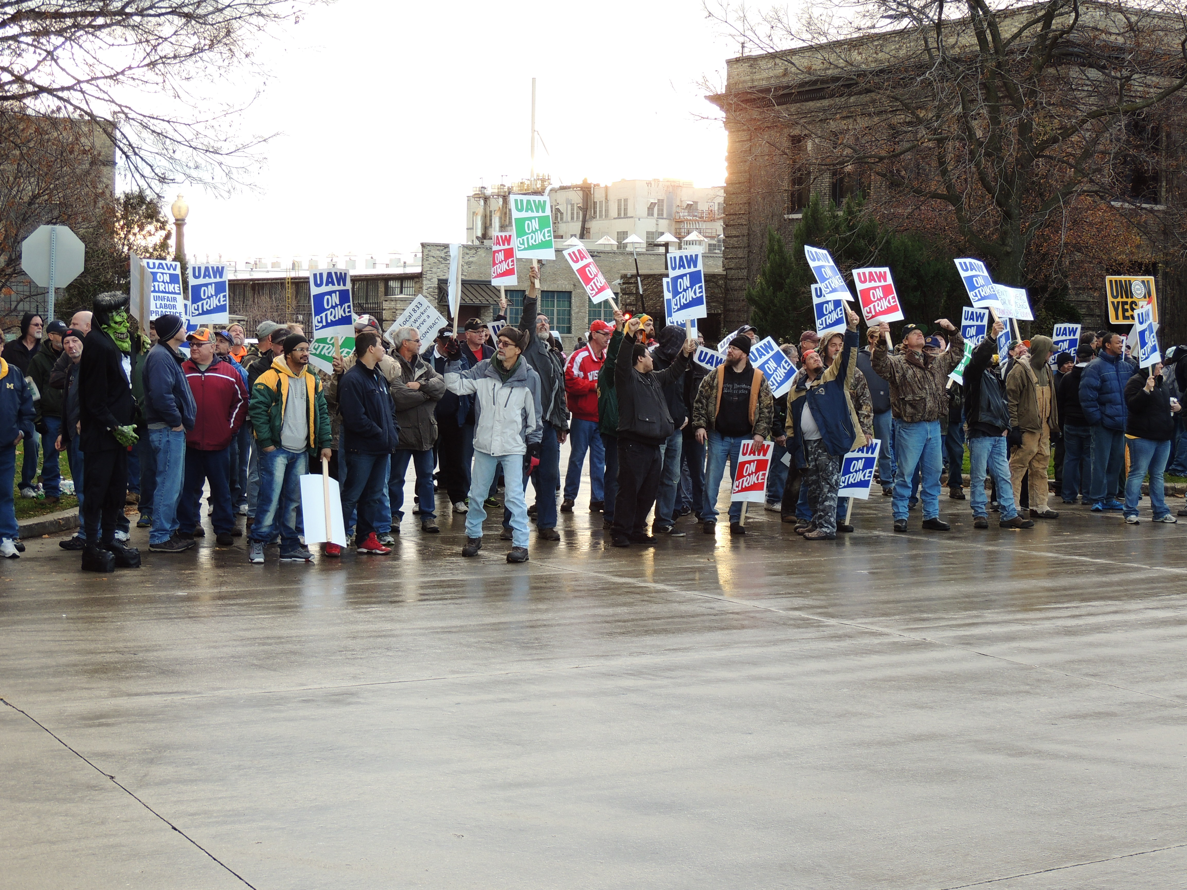 A picture taken by Asher Heimermann of workers striking outside the Kohler Company on November 16, 2015 in Kohler, Wisconsin.